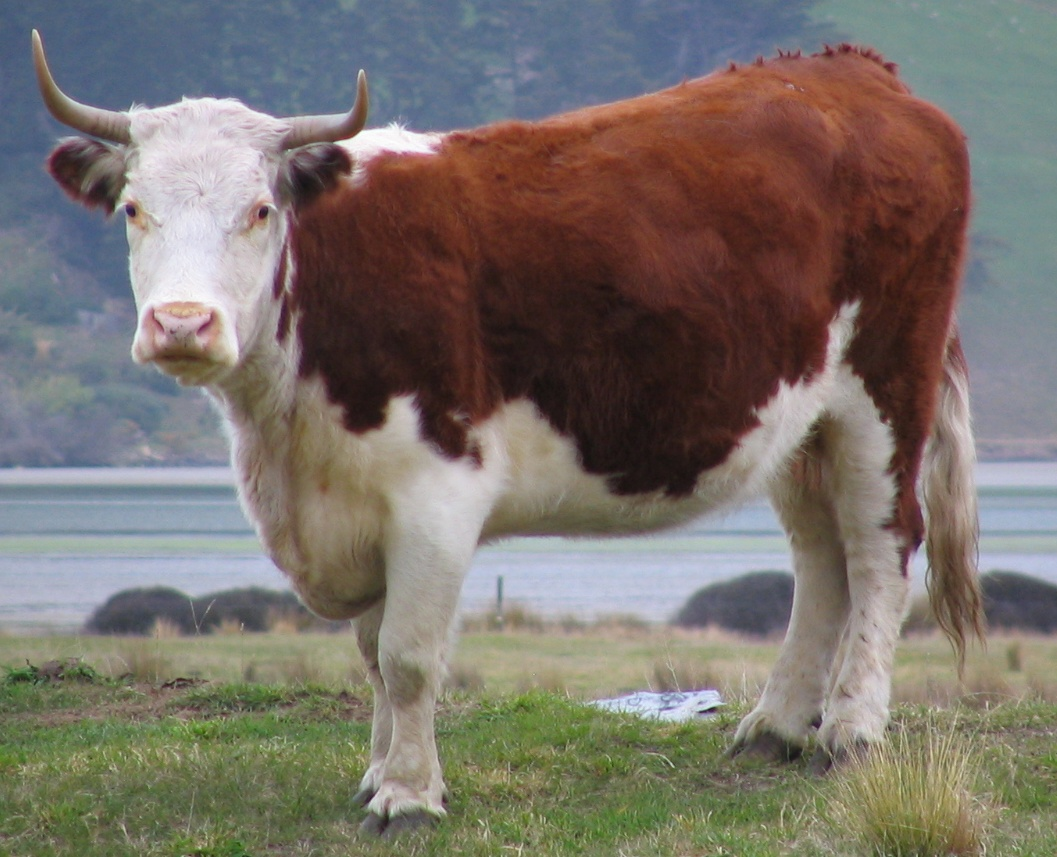 Horned cow, possibly a Hereford, on the Otago Peninsula beside Papanui Inlet, New Zealand.